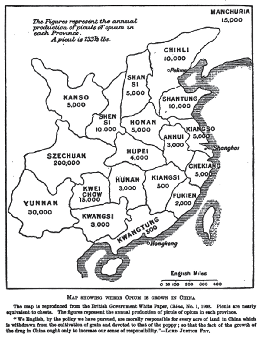 Opium production in China, 1908